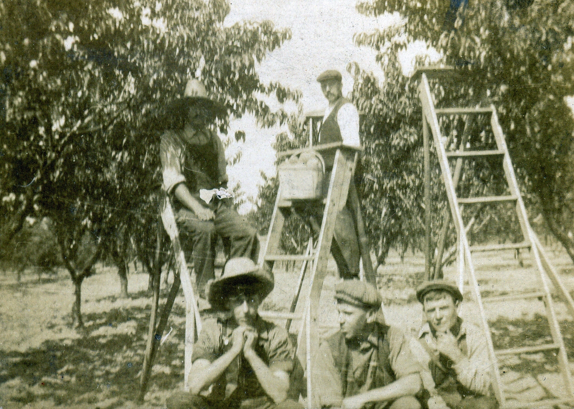 Historical photographs of Beamsville Ontario 1917-1950 including Peckham Orchards, and related family, personal papers and School information.